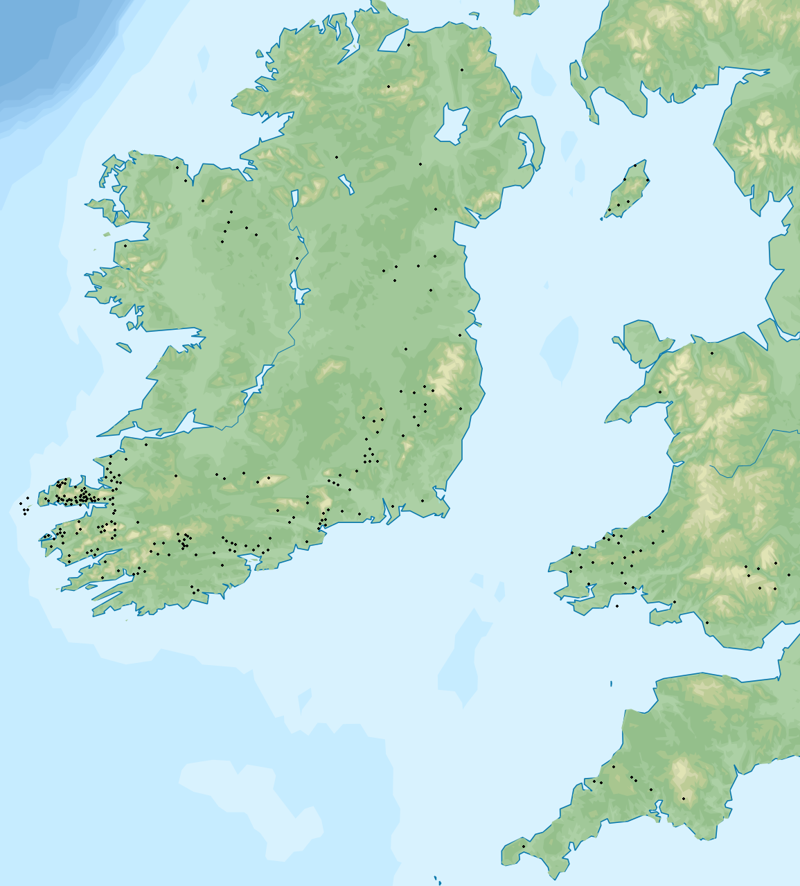 Sources: McManus 1991, pp. 46, 48; Kermode 1907, pp. 437-450; Macalister, 1945; Thomas & Forsyth, 2017